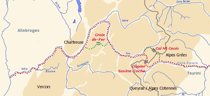 Hypothesis for Hannibal's way thru Alps en 218BC. Way by Mont Cenis pass, way by Clapier ou Savine-Coche pass